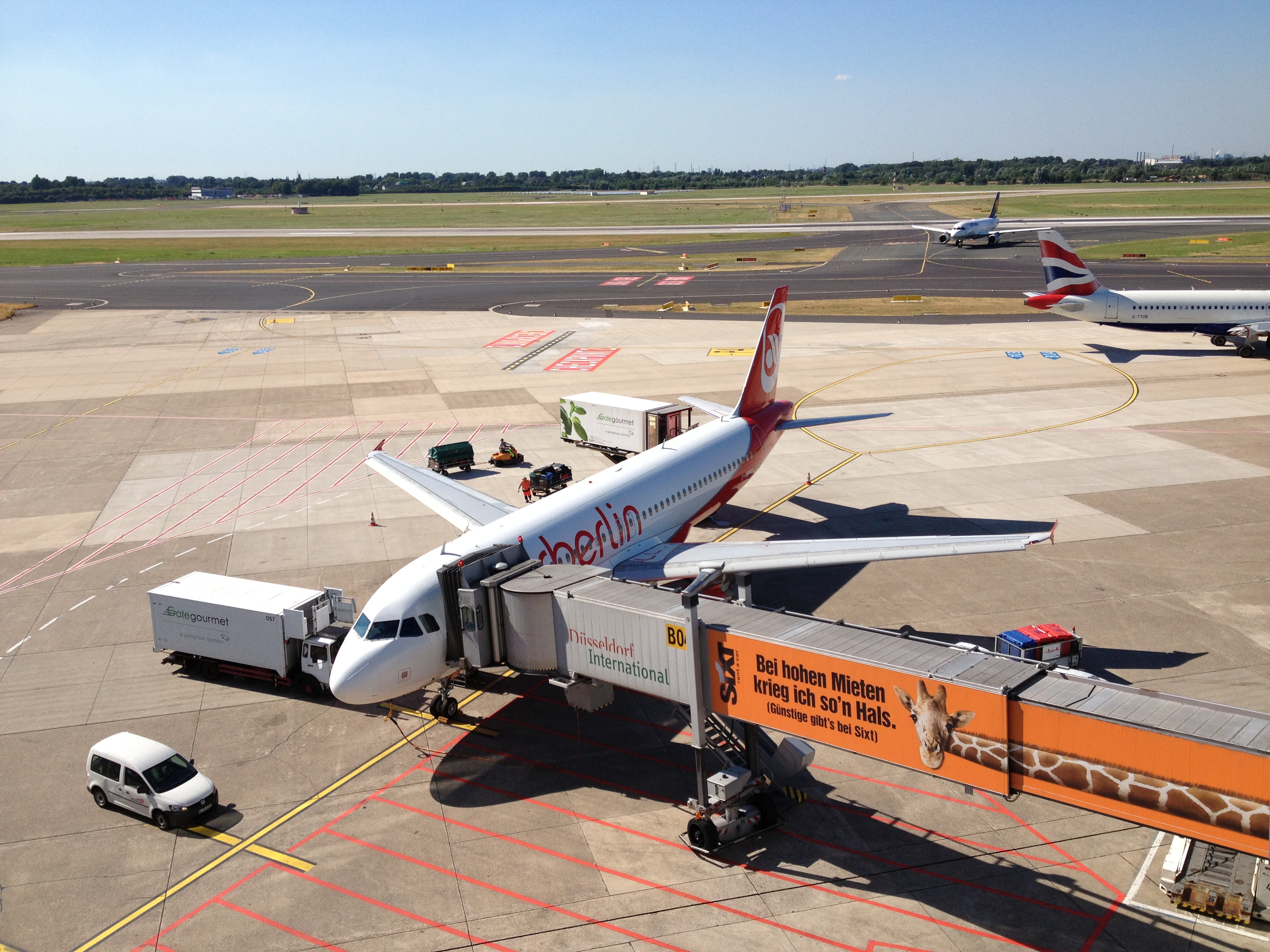 Air Berlin A320-200 during boarding at Düsseldorf Airpot (DUS)